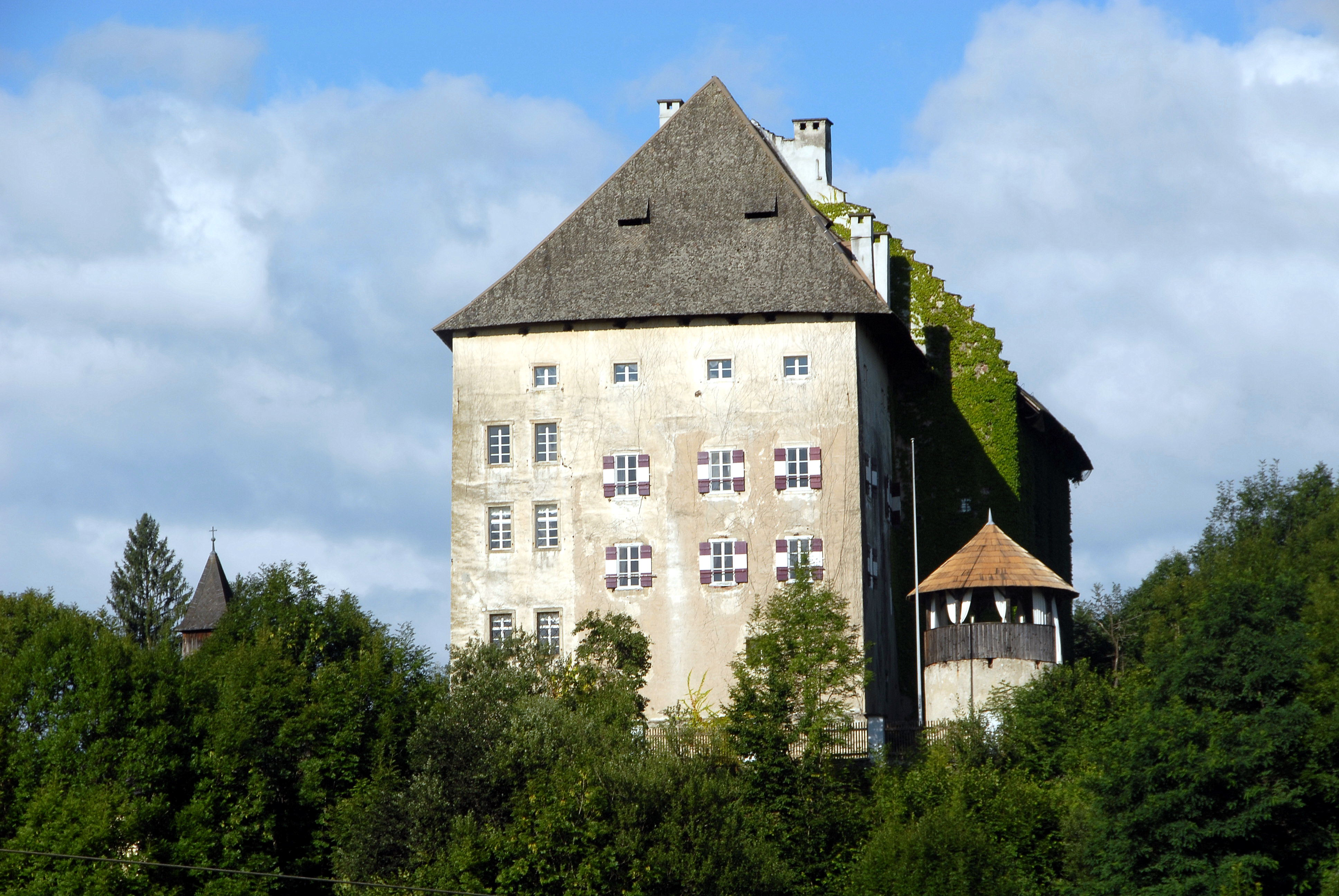 Eastern view of the castle on Schloss #1, market town Moosburg, district Klagenfurt Land, Carinthia, Austria, EU